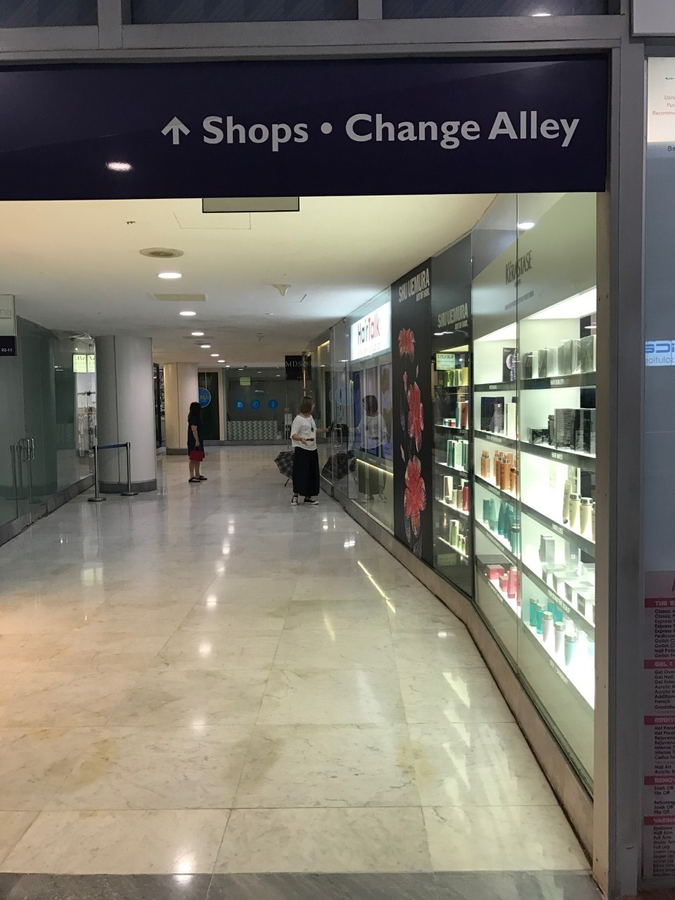 Change Alley Entrance (2017)